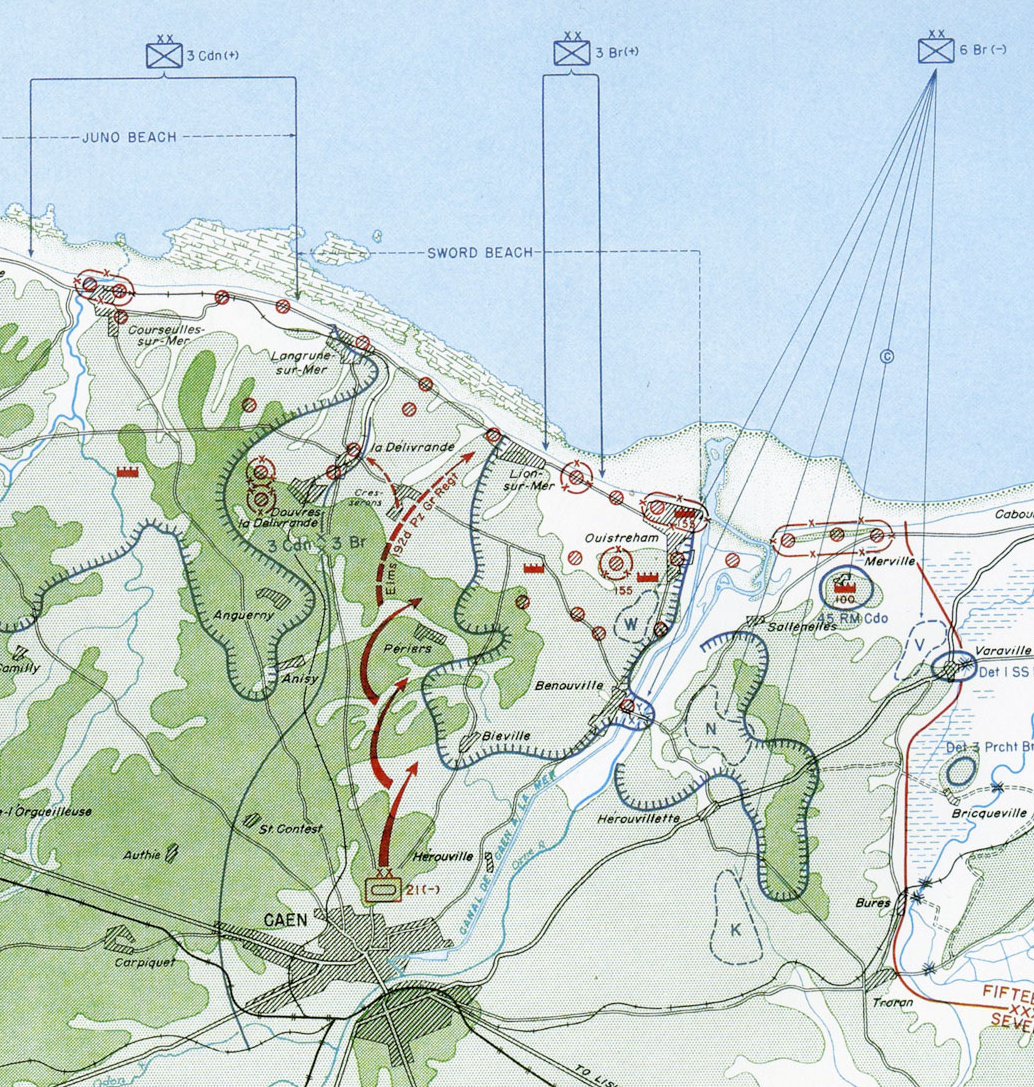 Cropped version of Description